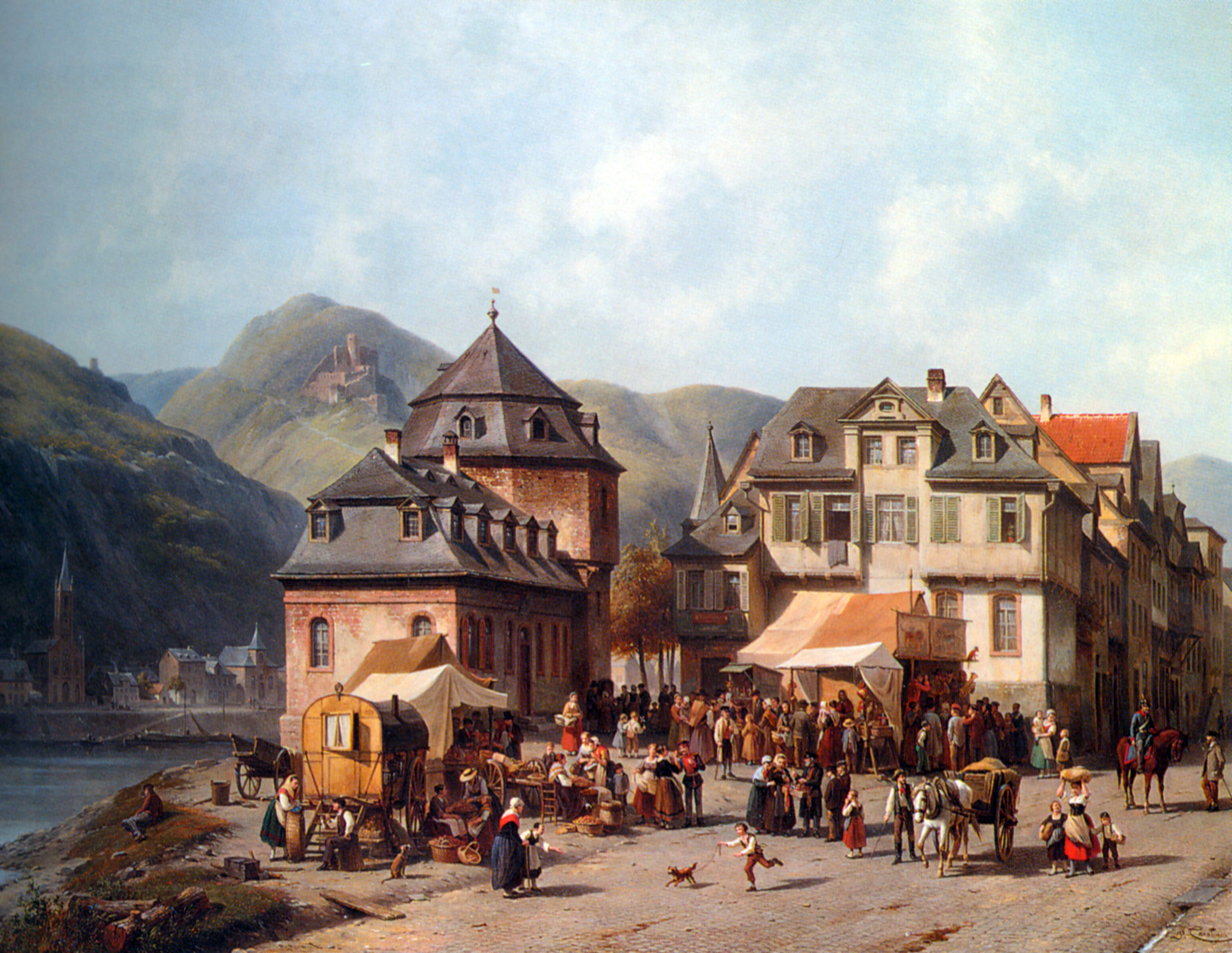 Jacques Carabain : St. Goar am Rhein